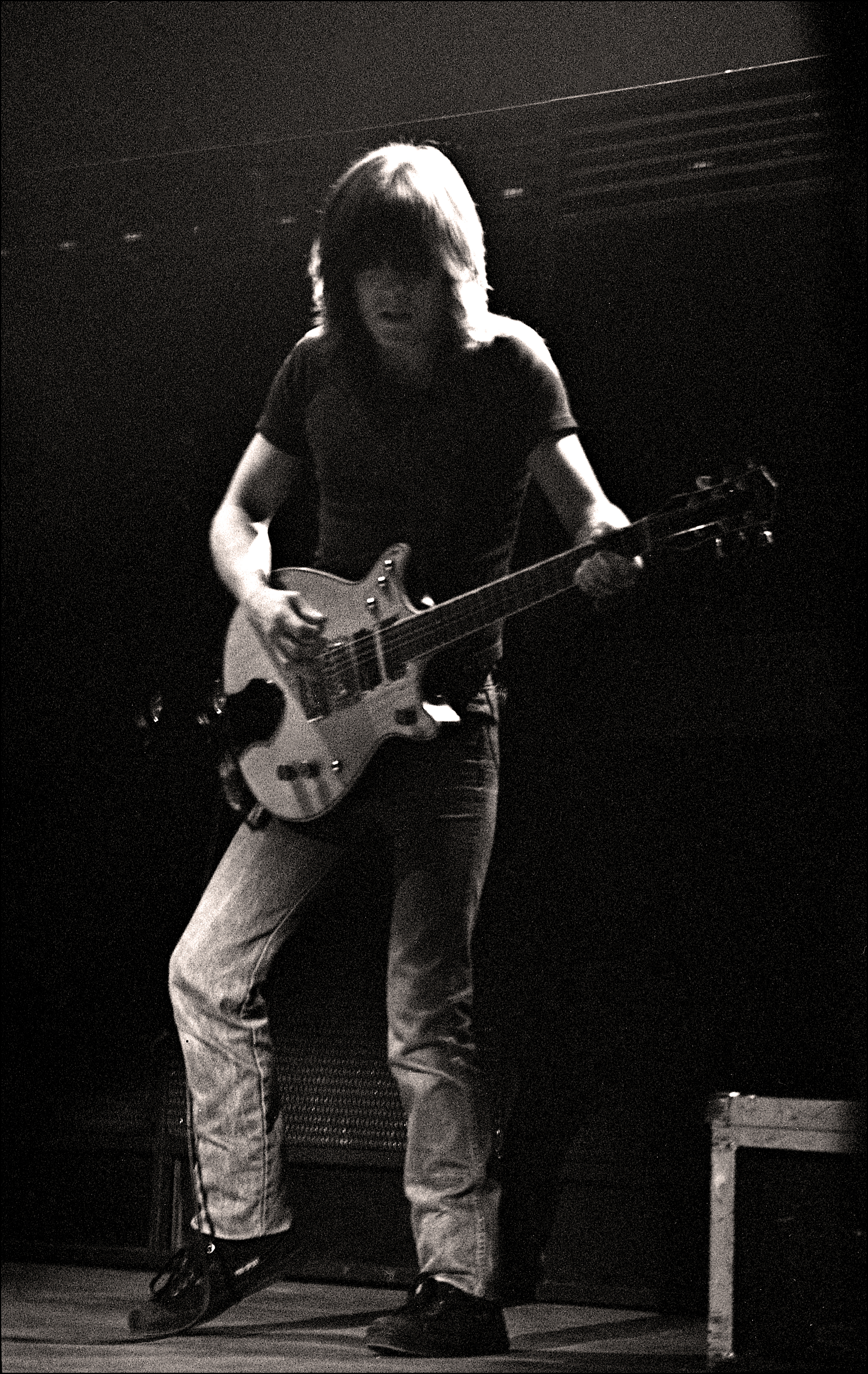 AC/DC - Manchester Apollo - 1982 Malcolm Young